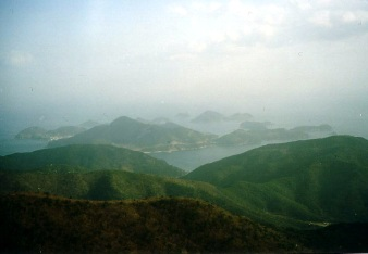 Picture of the coastline in South Jeolla, South Korea.